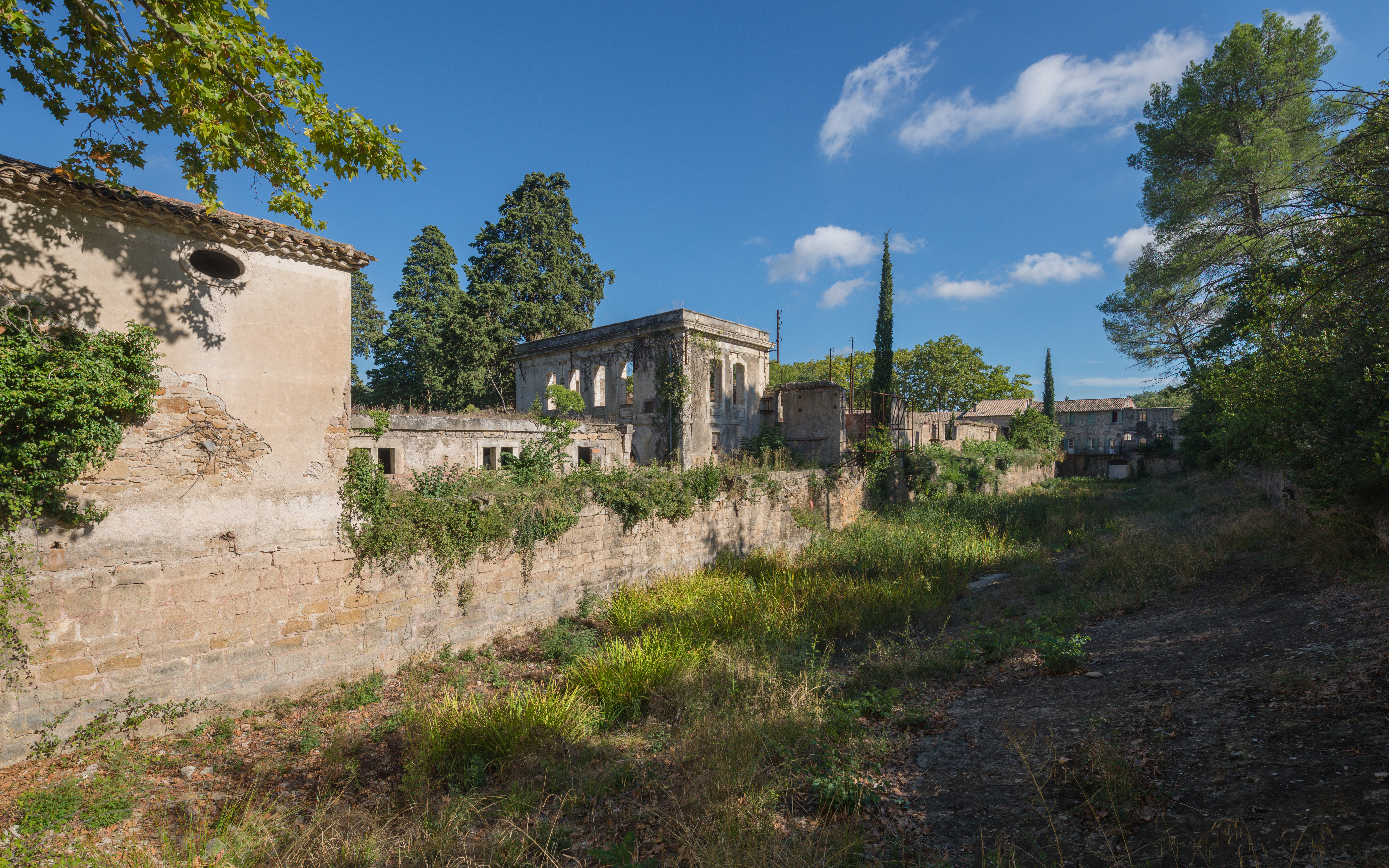 The disused buildings in the Western part of the "Manufacture des draps de Villeneuvette" (1667). Villeneuvette, Hérault, France.